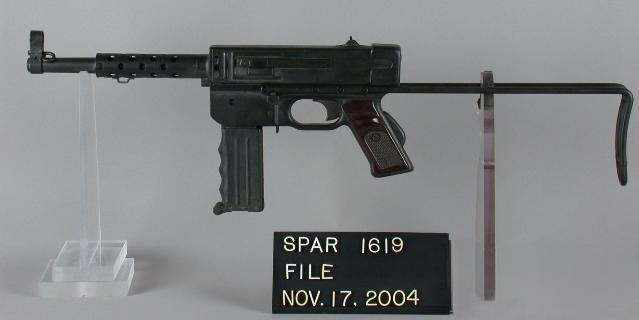 FRENCH SUBMACHINE GUN MODEL 1949 M.A.T.